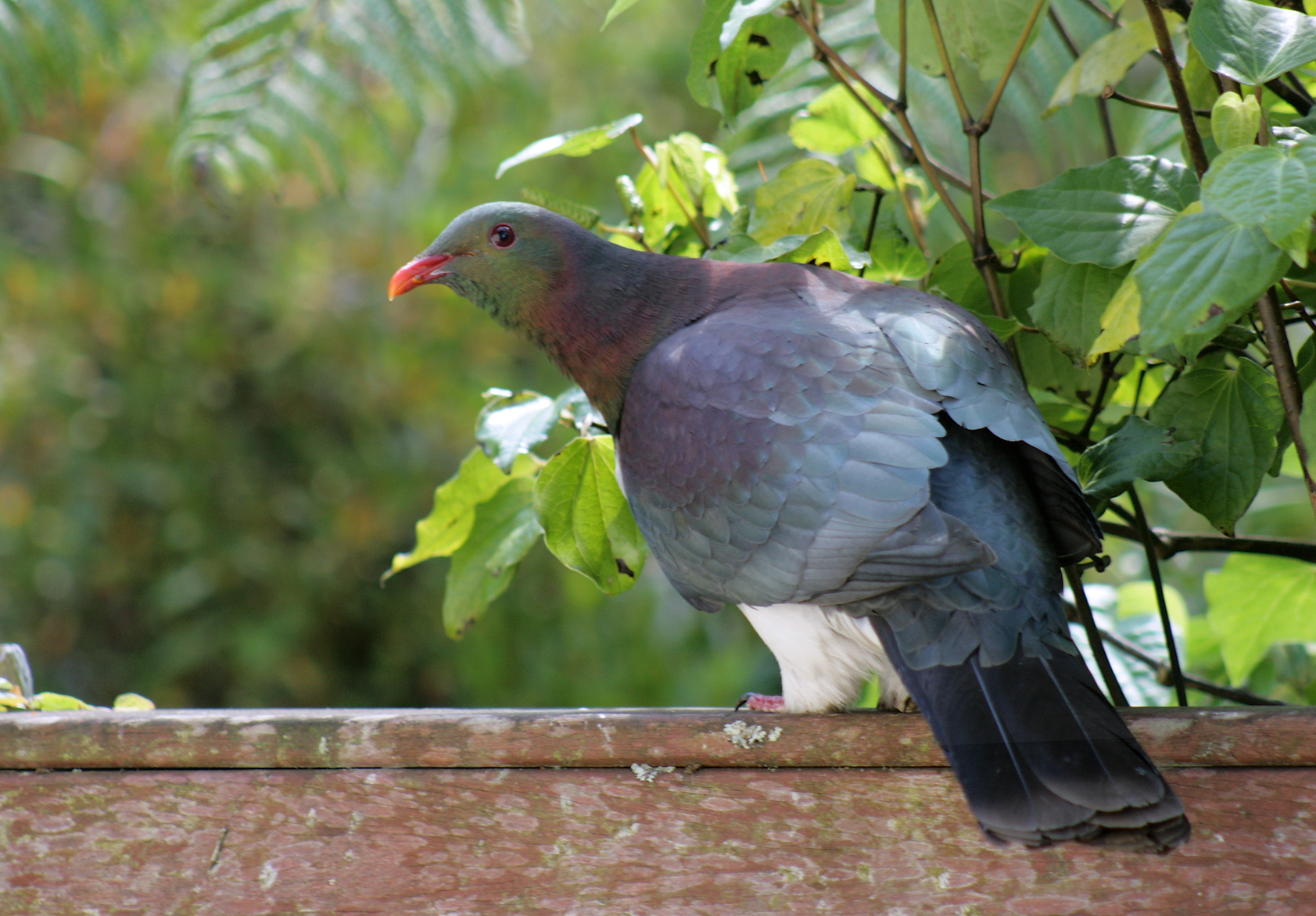 Kererū about to feed on Kawakawa berries